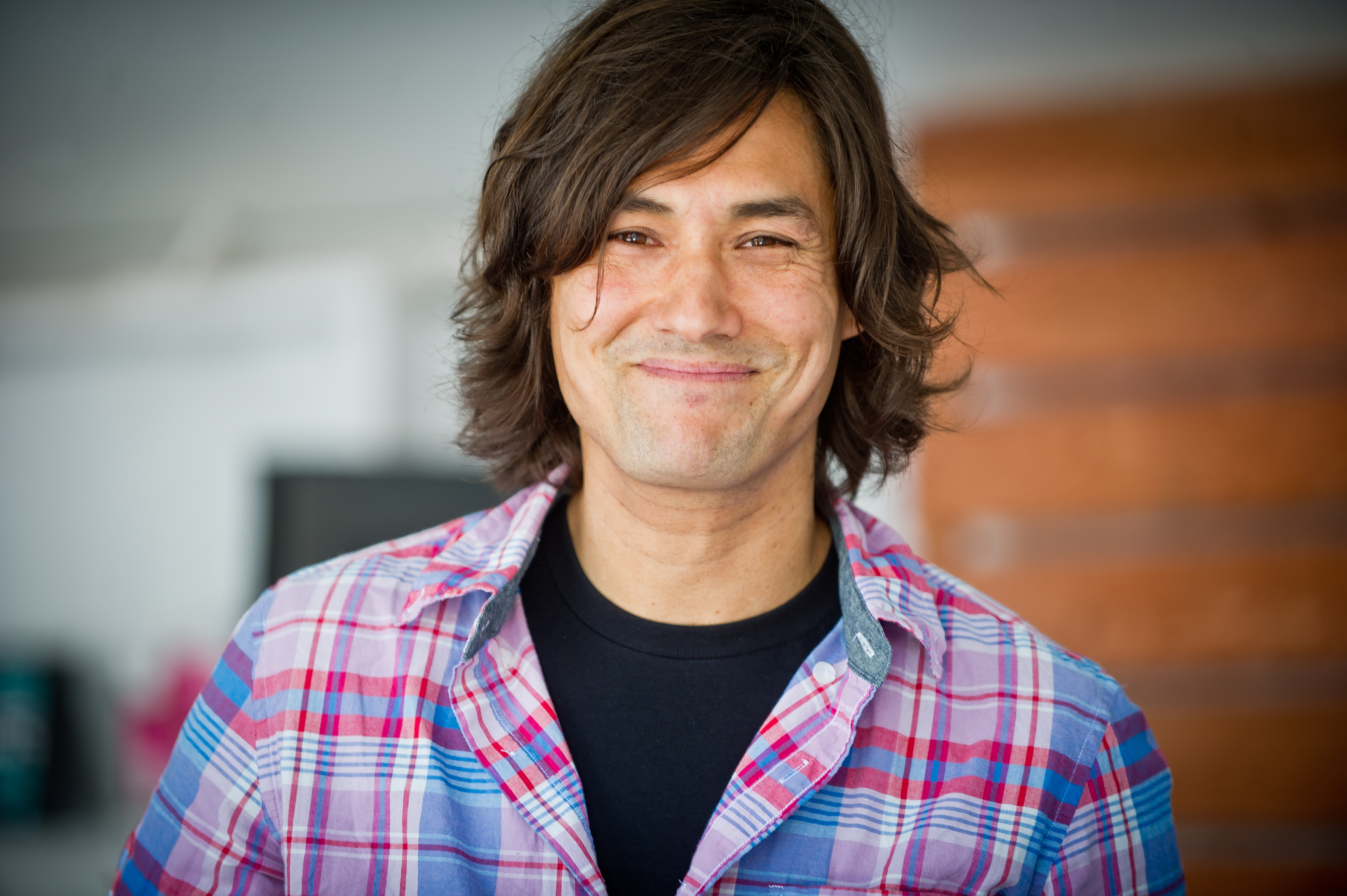 23/5/12. David Usher @ C2-MTL. CHARLES WILLIAM PELLETIER / C2-MTL